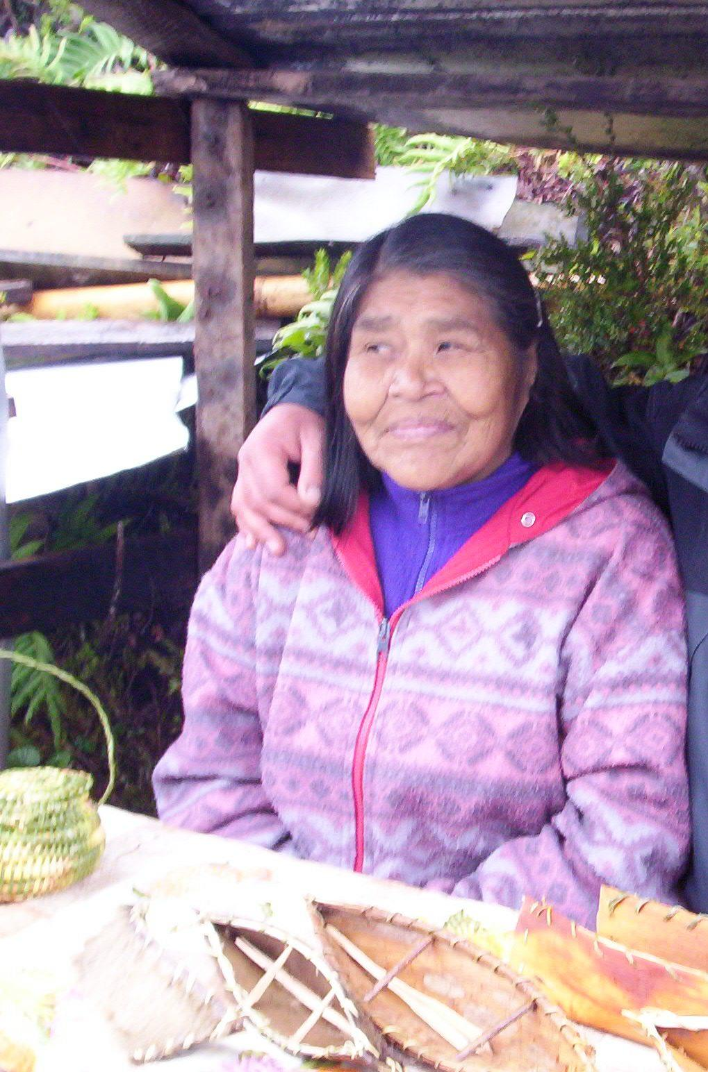 Gabriela Paterito, an Alacaluf (Kawésqar) woman selling handicrafts to tourists in Villa Puerto Edén, Chile.